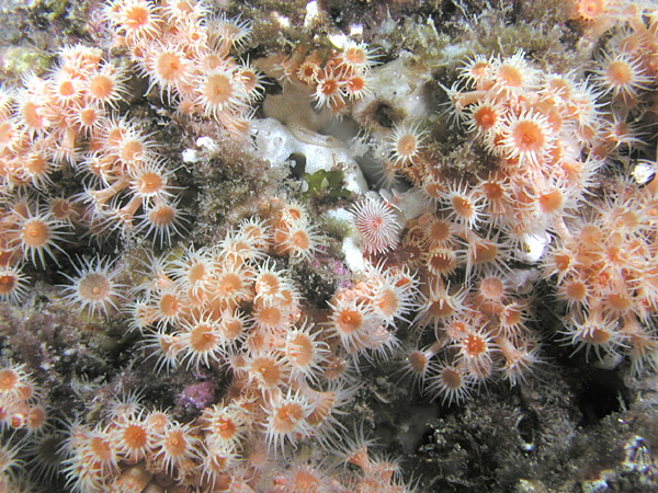 Anemones, Catalina Island, Channel Islands, California. Image taken by Clark Anderson/Aquaimages.